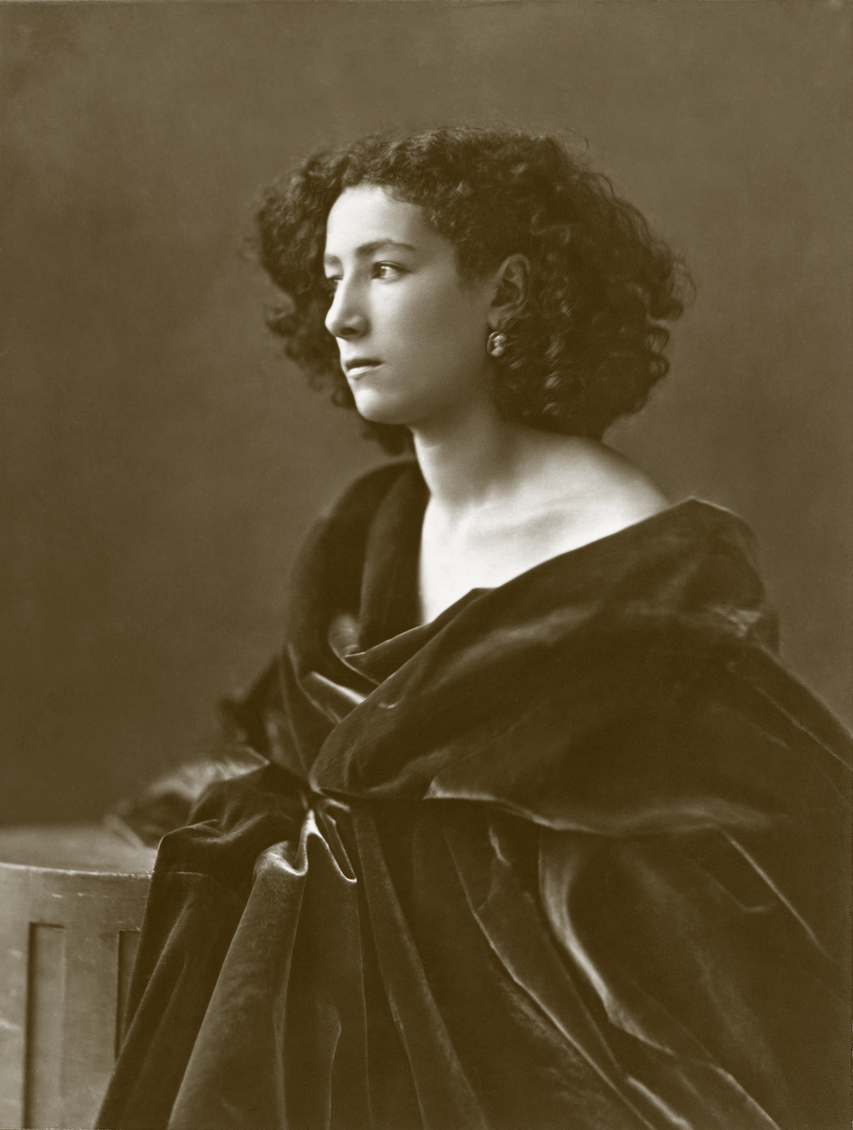 Félix Nadar (1820-1910); French actress Sarah Bernhardt (1844-1923) around 1864 (8 5/16 x 6 3/8 in).